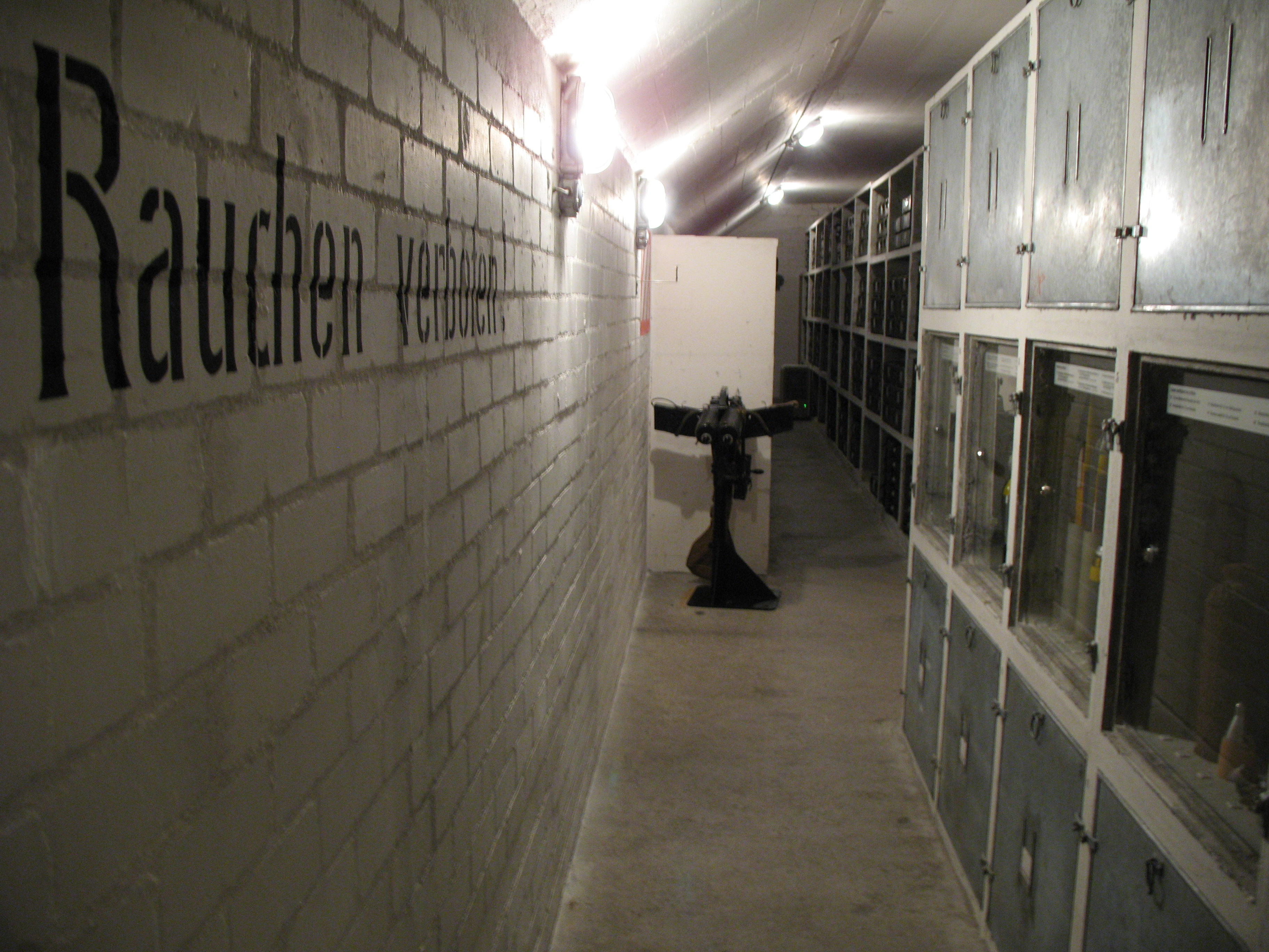 Munitions arsenal, Fort Fürigen, Switzerland